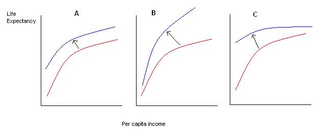 Illustration of shifts in the Preston curve due to exogenous improvements in health technology. A - new health technology is uniformly applicable across countries. B - new health technology helps rich countries more. C - new health technology helps poor countries more. Based on Handbook of development economics, Volume 4 By T. Paul Schultz